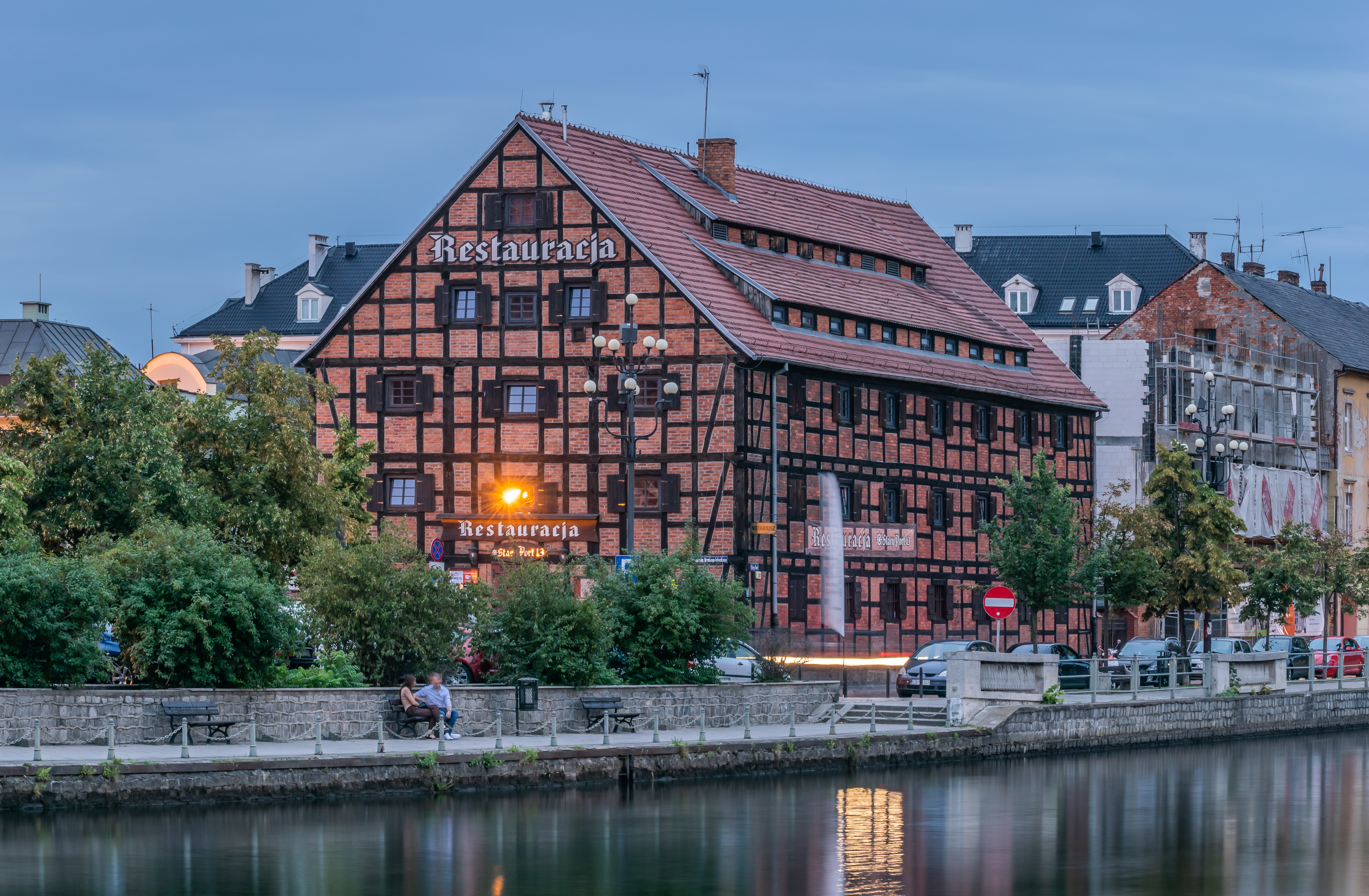 Granary at Stary Port 13 in Bydgoszcz, Kuyavian-Pomeranian Voivodeship, Poland